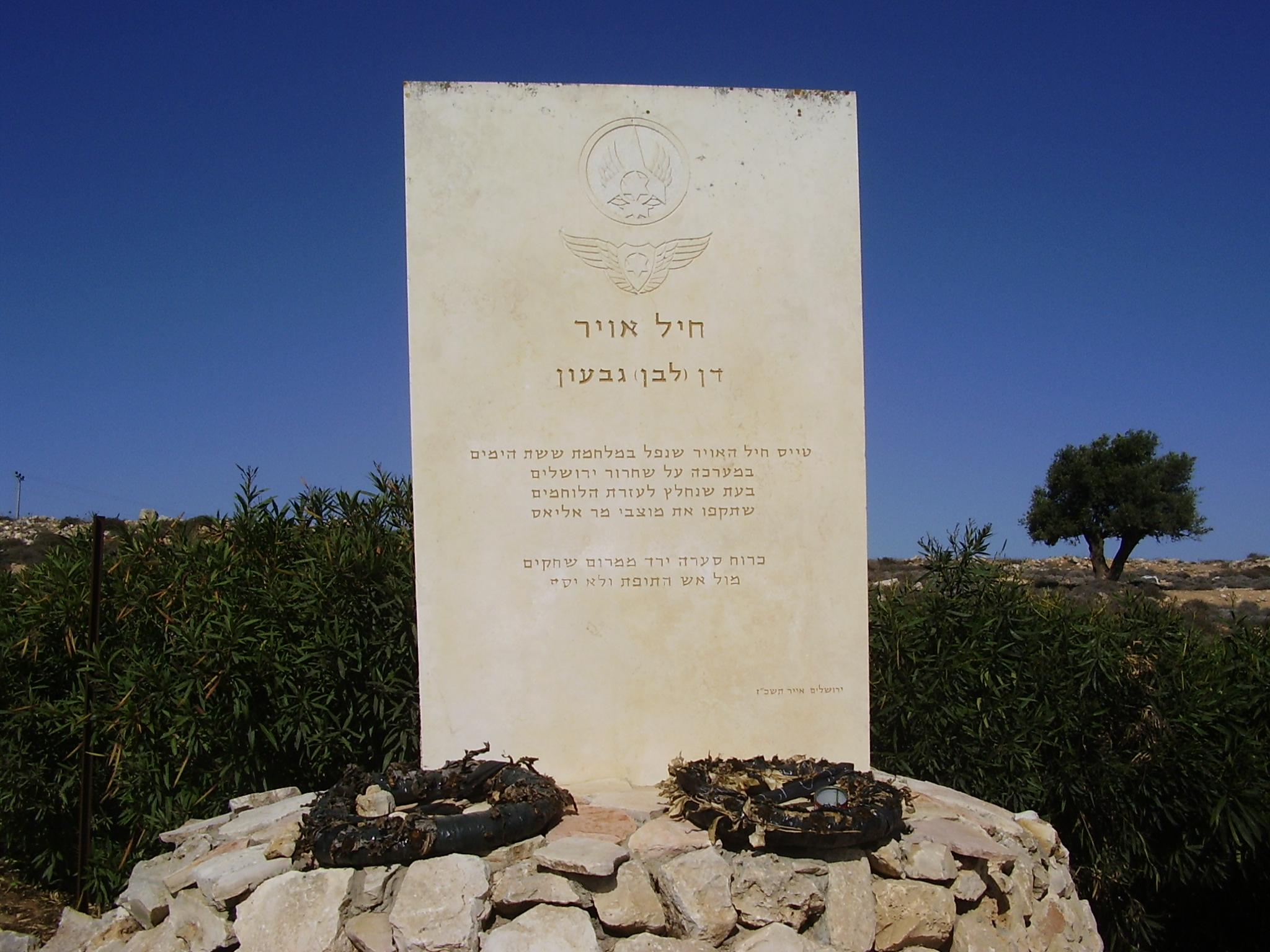 memorial to IDF pilot Dan Giv'on, whose plane was shot down in the Six-Say War in southern Jerusalem. אנדרטה לטייס דן גבעון שמטוסו הופל באש הירדנים בדרום ירושלים במלחמת ששת הימים